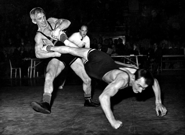 Olle Anderberg, then active for Eskilstuna, here he has taken a grip of Hammarby's Helge Rautti during the Swedish amateur wrestling championship 1946.